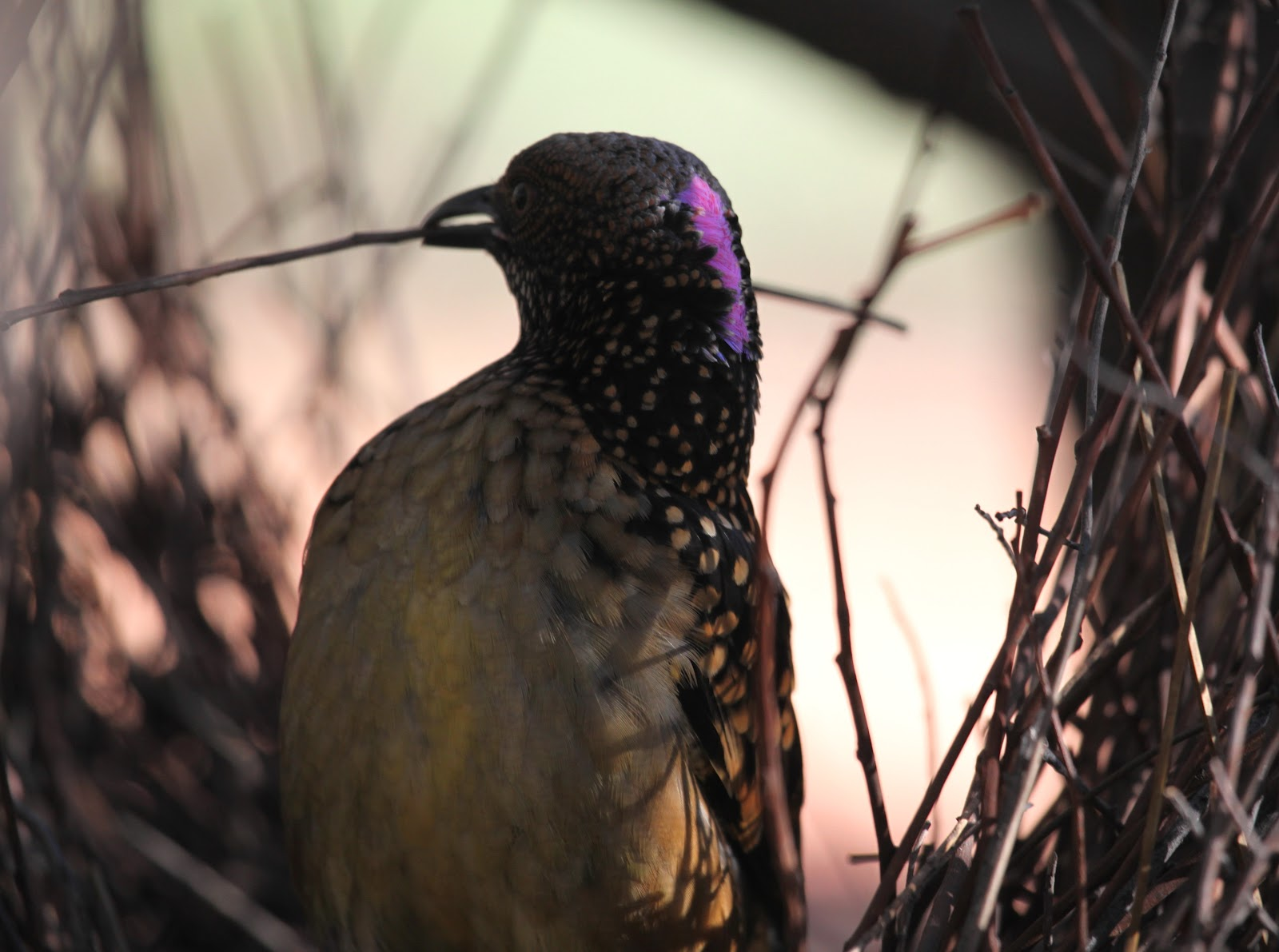 Western Bowerbird (Chlamydera guttata), Northern Territory, Australia